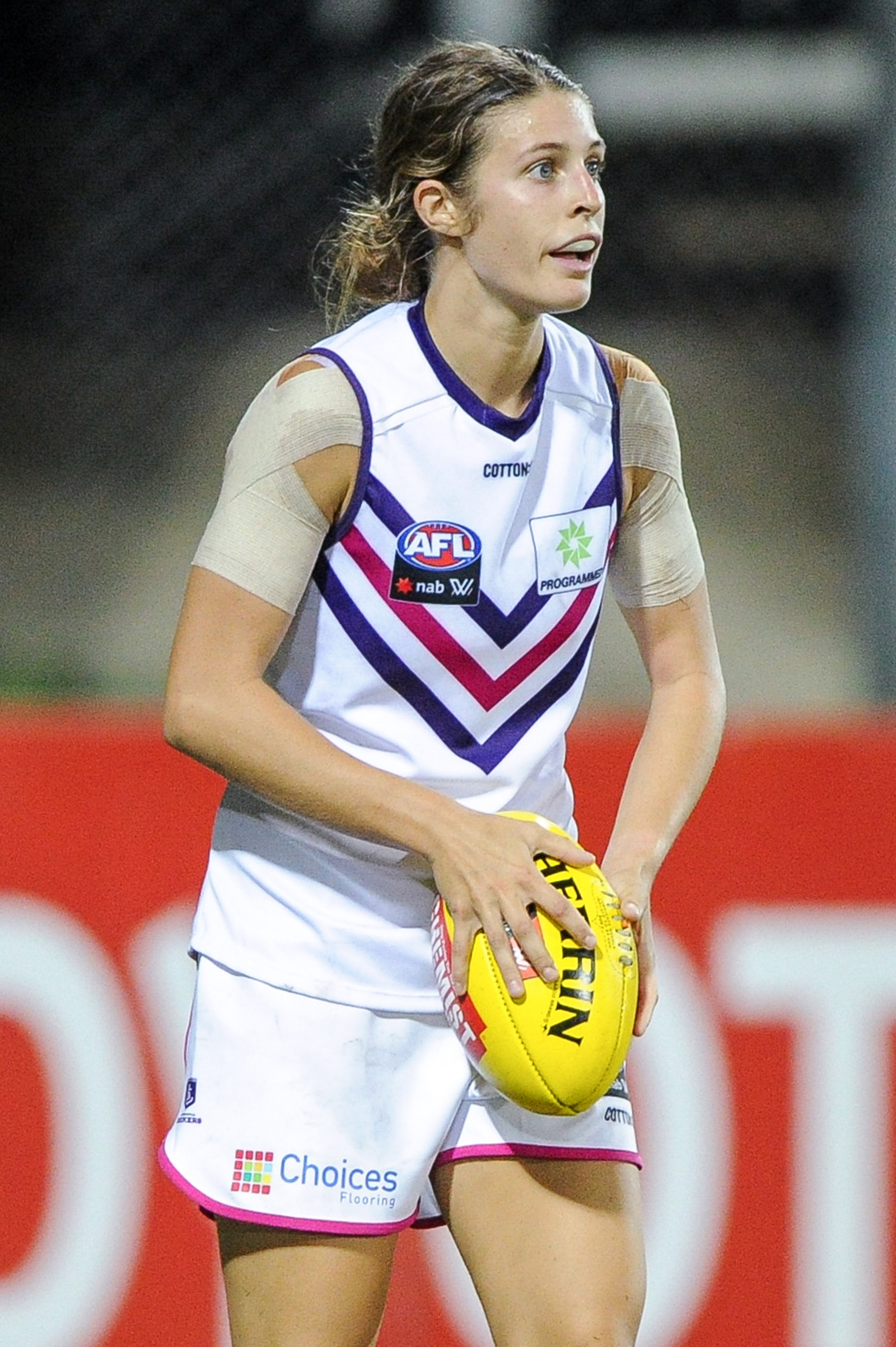 Belinda Smith in the AFL Women's preseason match between the Adelaide Football Club and Fremantle Football Club on 20 January 2018 at TIO Stadium.